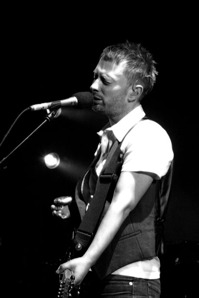 Thom Yorke live on stage with Radiohead